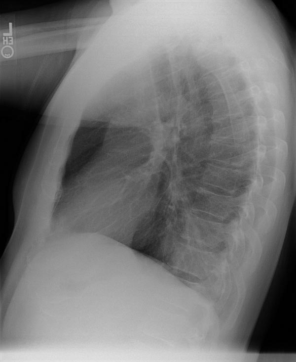 chest radiogram: diagnosis is pulmonary sequestration